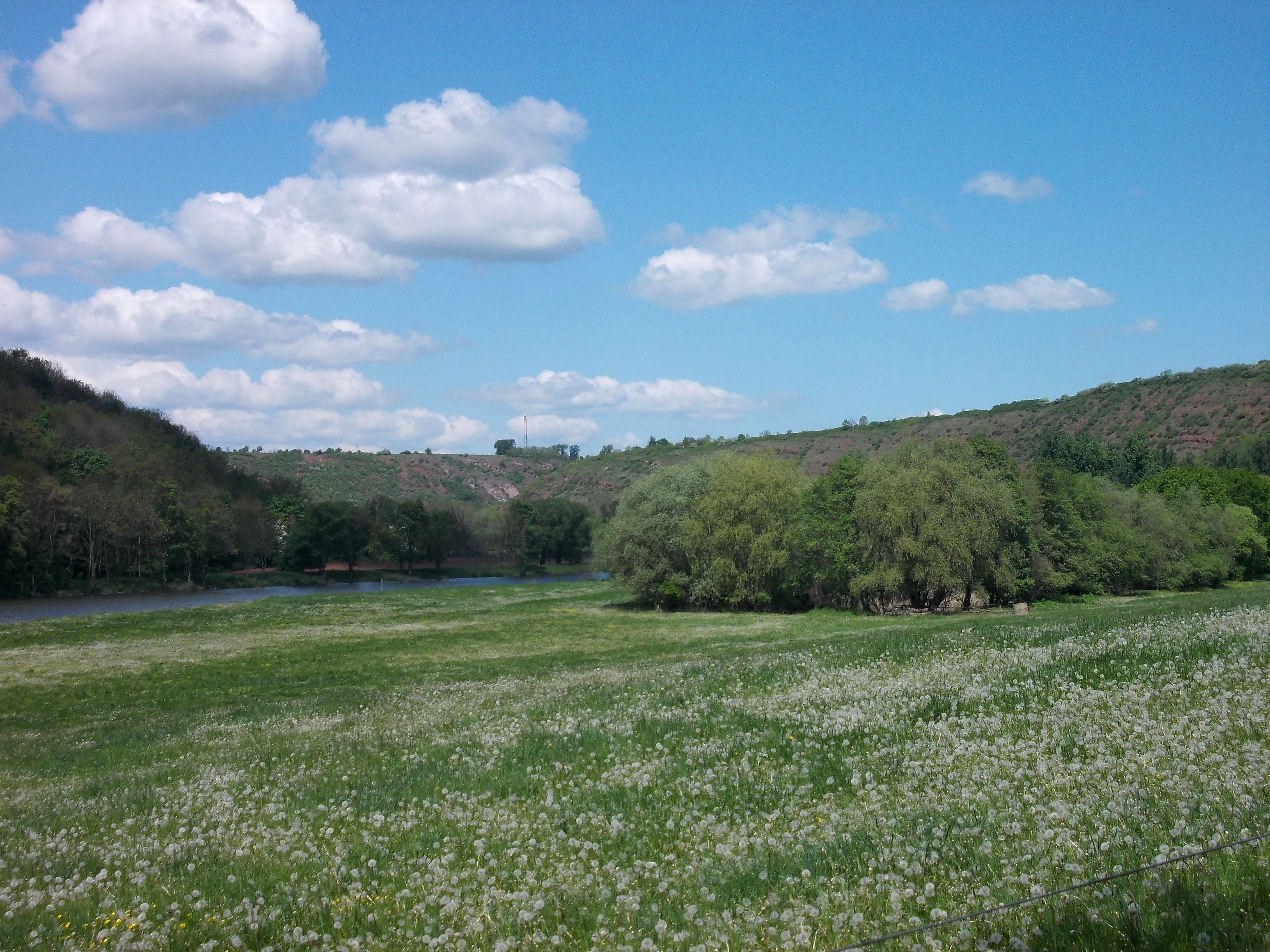 Saale valley south of Rothenburg (Wettin-Löbejün, district: Saalekreis, Saxony-Anhalt), nature reserve Saale gap near Rothenburg